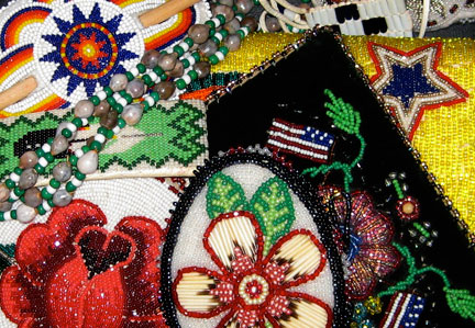 Various examples of contemporary Native American beadwork, including Job's tear necklace and barrette featuring porcupine quills